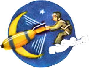 Emblem of the 378th Bombardment Squadron